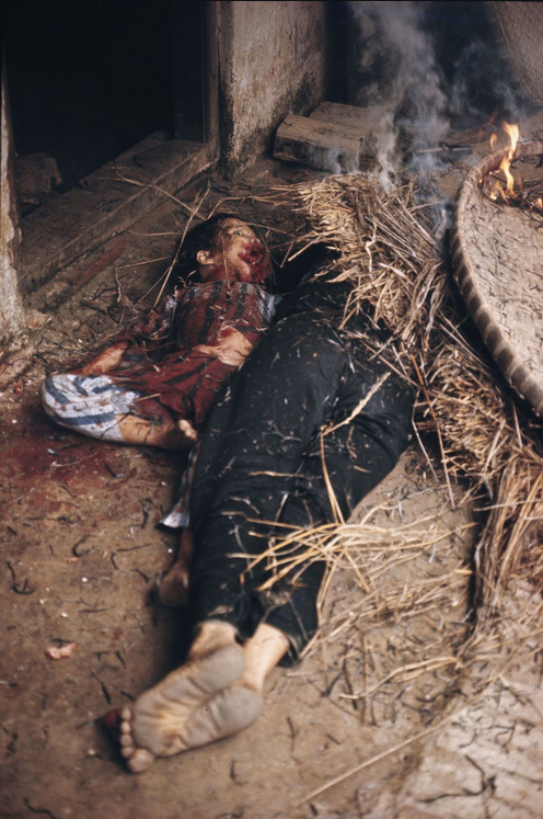 Unidentified Vietnamese female and child killed by US soldiers.